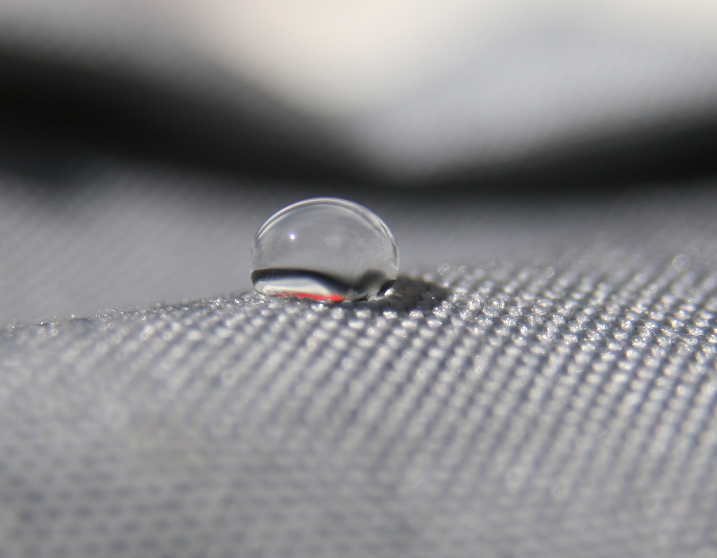 Water droplet at DWR-coated surface